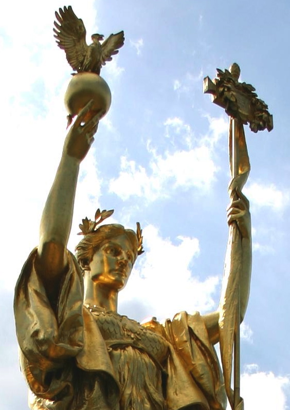 The Republic in Jackson Park, Chicago, IL, USA